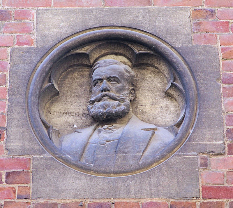 Relief of Victor de Stuers - Kruisherengang 12, Maastricht, The Netherlands. By Alphonse de Stuers, 1901.